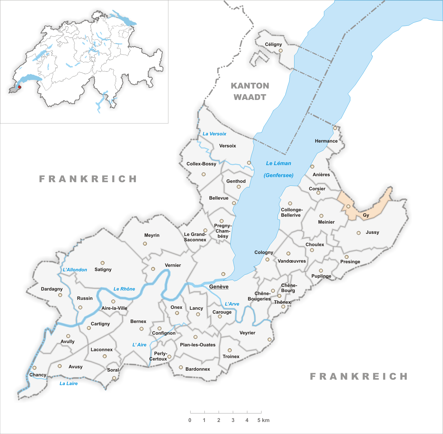 Municipality Gy